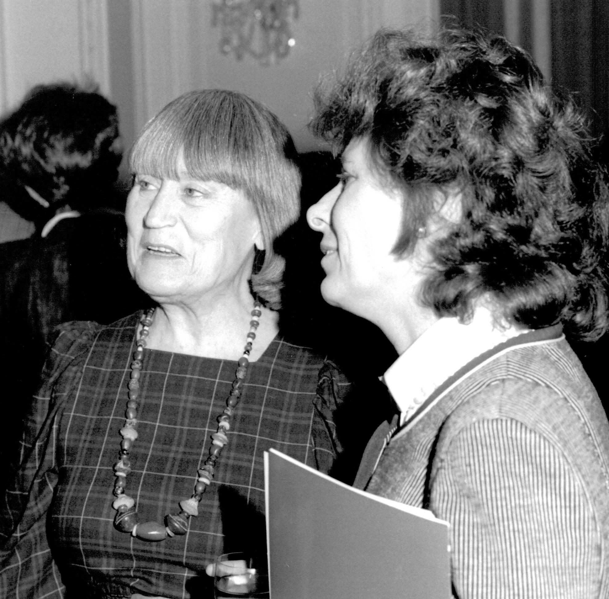 Dee Wells at a party following her appearance on TV series After Dark in 1989